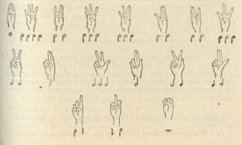 Dactilorrítmia [Finger-rhythm]. The duration of the sound is represented by different combinations made ​​with the fingers. Allows rhythm exercises: reading values ​​and rhythmic dictation.